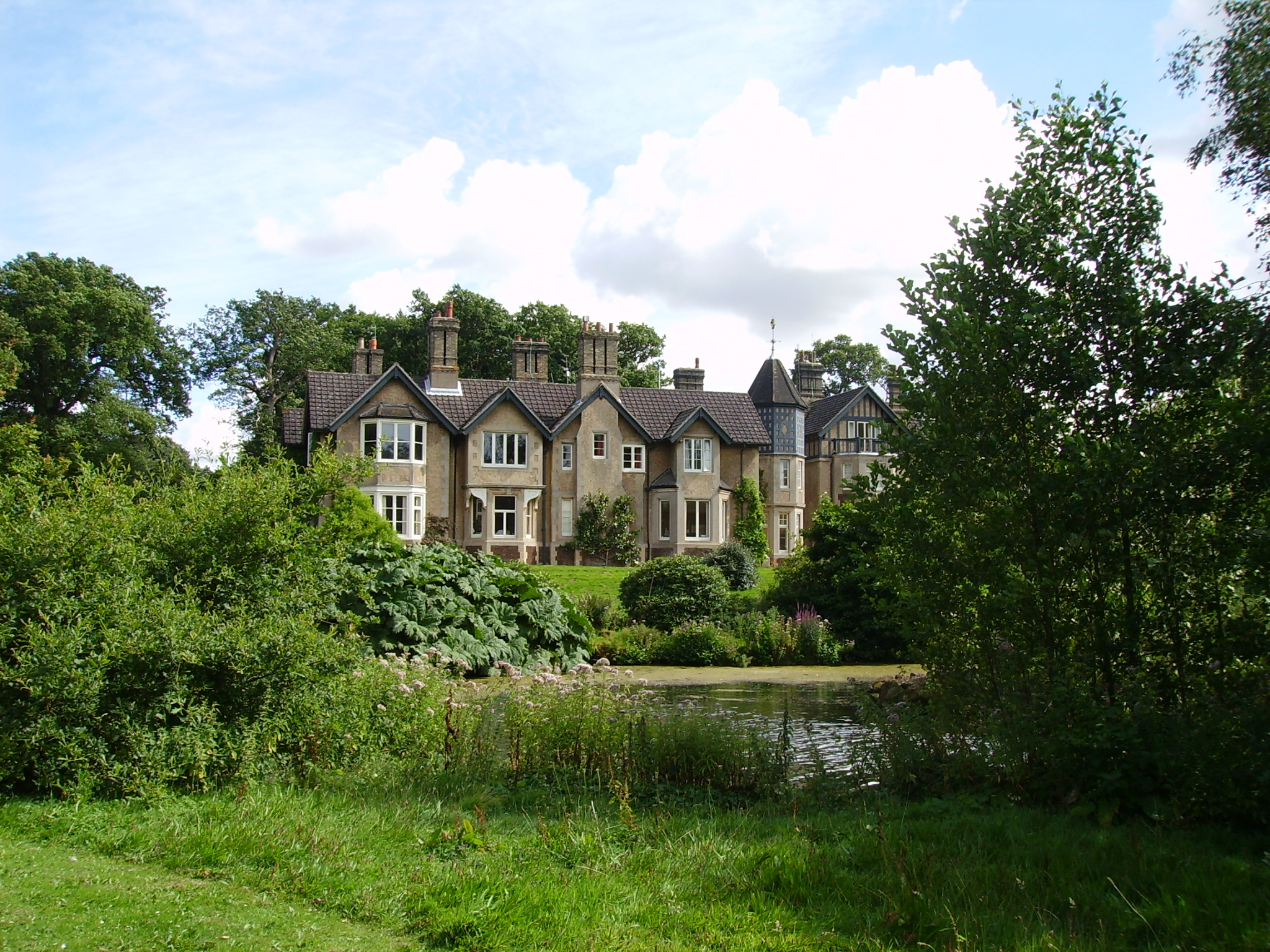 York Cottage, taken in August 2007